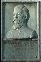 A relief of Brigadier General Abraham Buford at Vicksburg National Military Park by Theo Alice Ruggles Kitson. Erected on November 21, 1911 at South Confederate Avenue, 250 yards south of All Saints School.